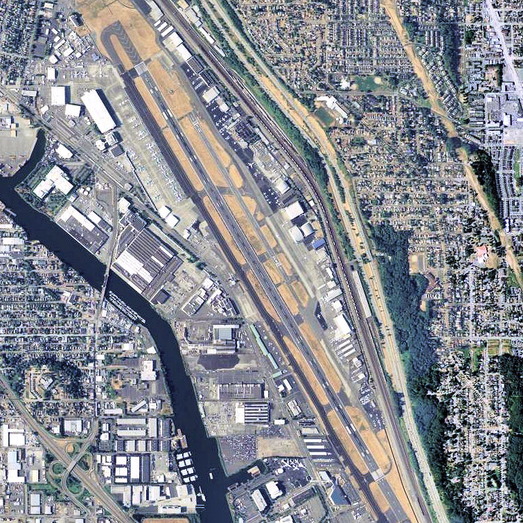 USGS digital orthophoto of Boeing Field in Washington